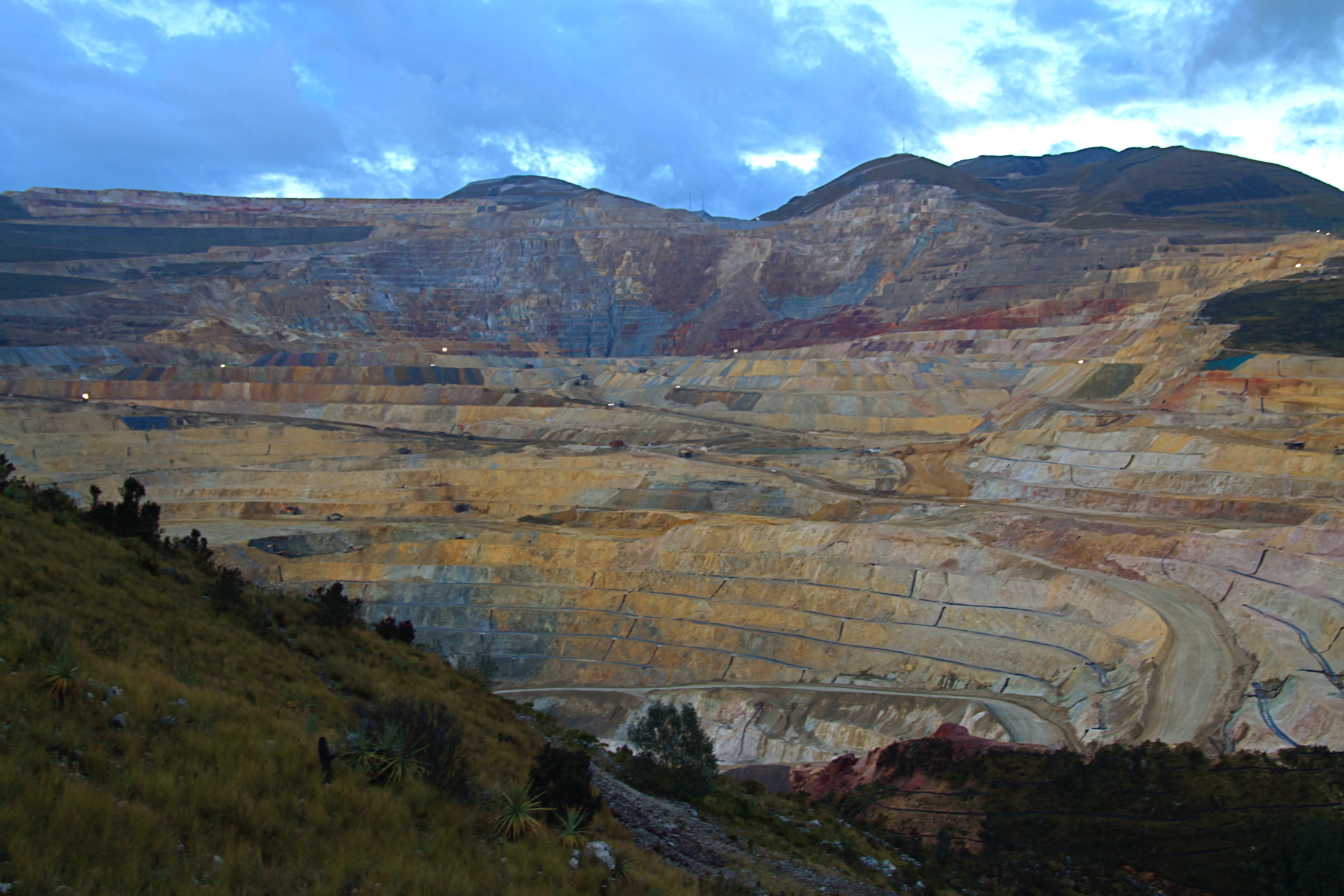 Yanaocha Mine in Cajamarca, Peru